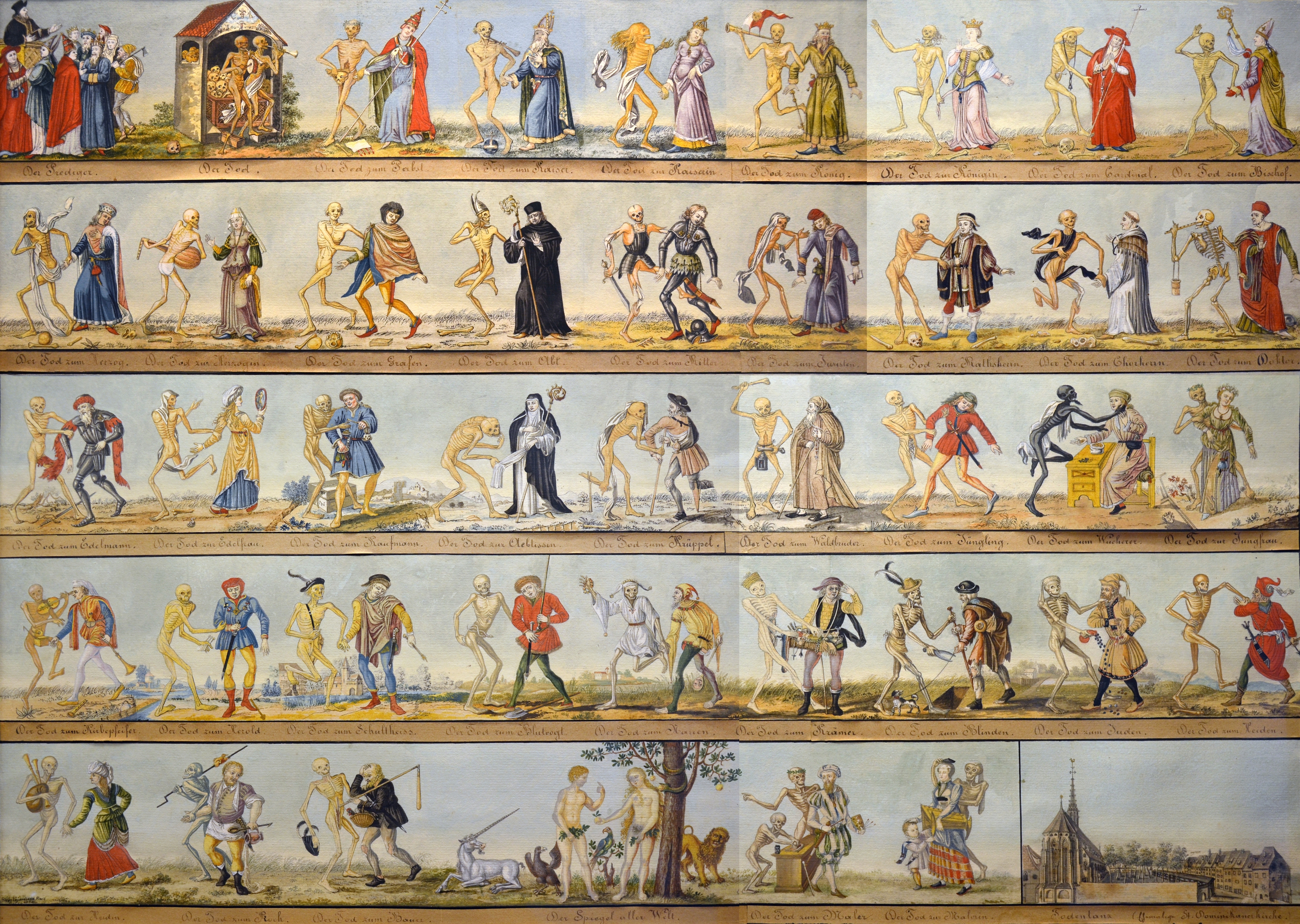 Danse Macabre of Basel, watercolor copy by Johann Rudolf Feyerabend, 1806. This copy is shown in Historisches Museum Basel. The (destroyed) origin was a mural of Predigerkloster (Basel), first half of 15th century. Thanks for Vassil's high resolution photographs; the shades should match together.